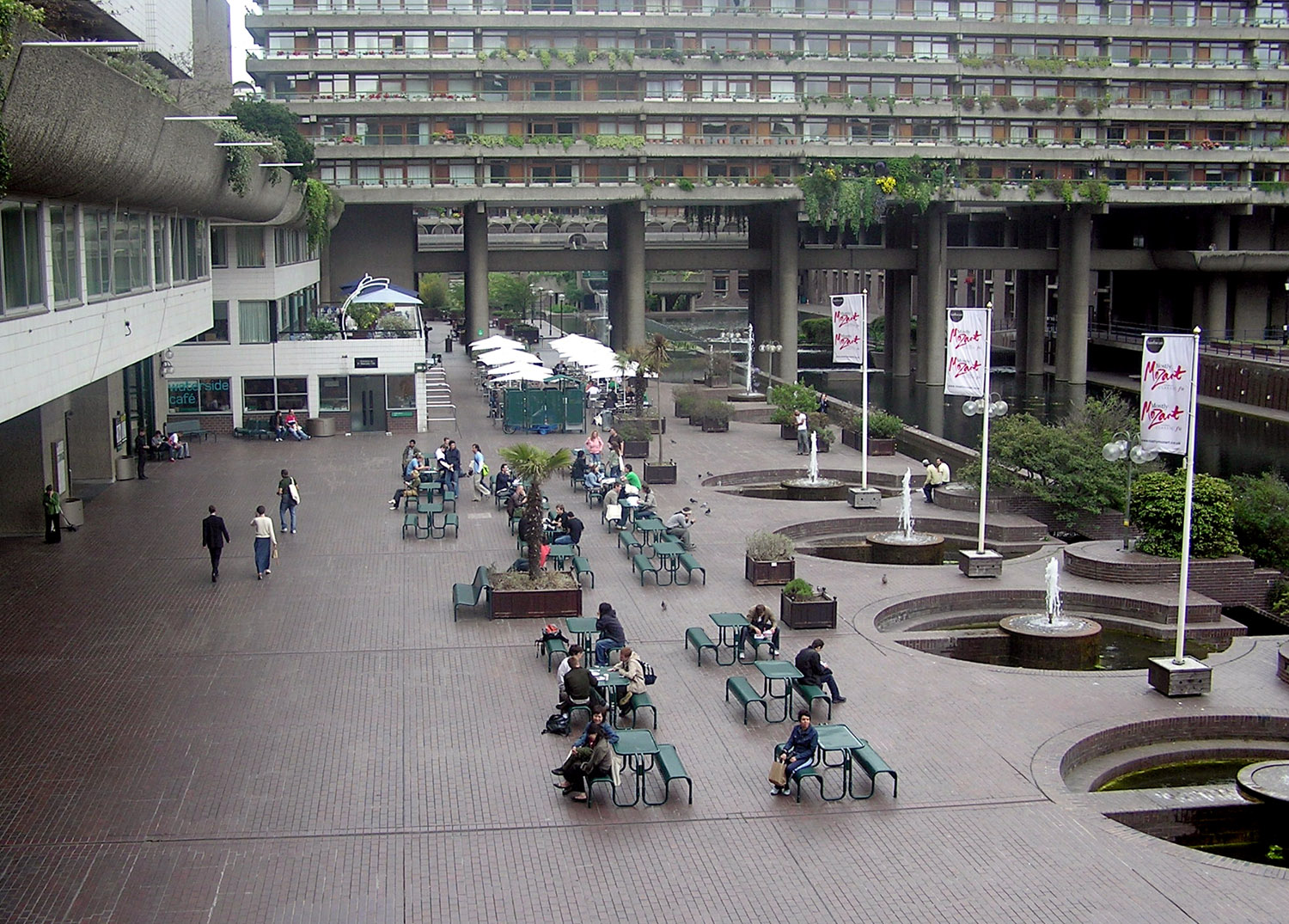 A small part of the Barbican, London, England, showing flats and café area. Photographed by Adrian Pingstone in June 2005 and released to the public domain.